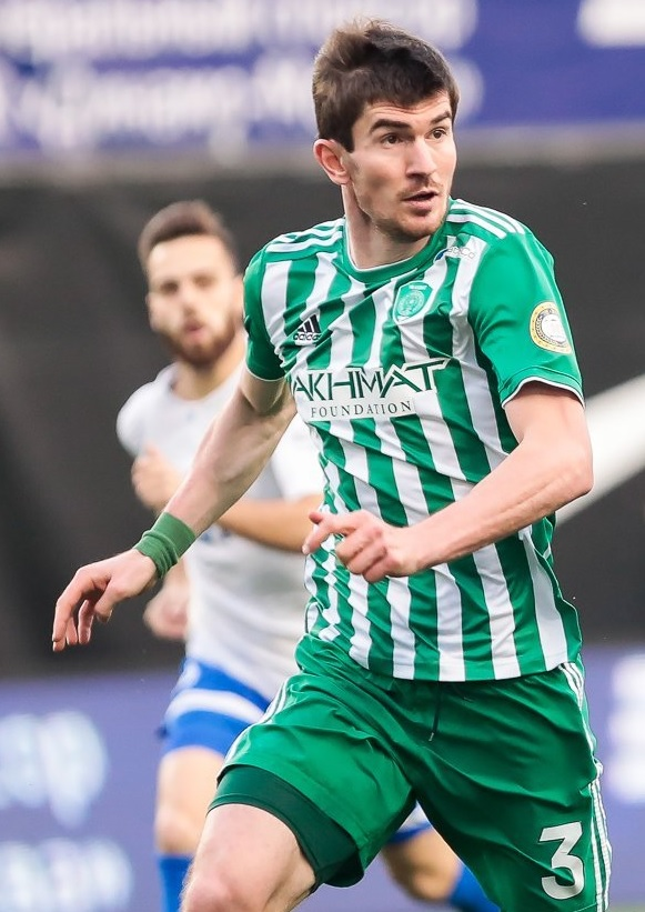 Zaurbek Pliyev with FC Akhmat Grozny in a game against FC Dynamo Moscow.